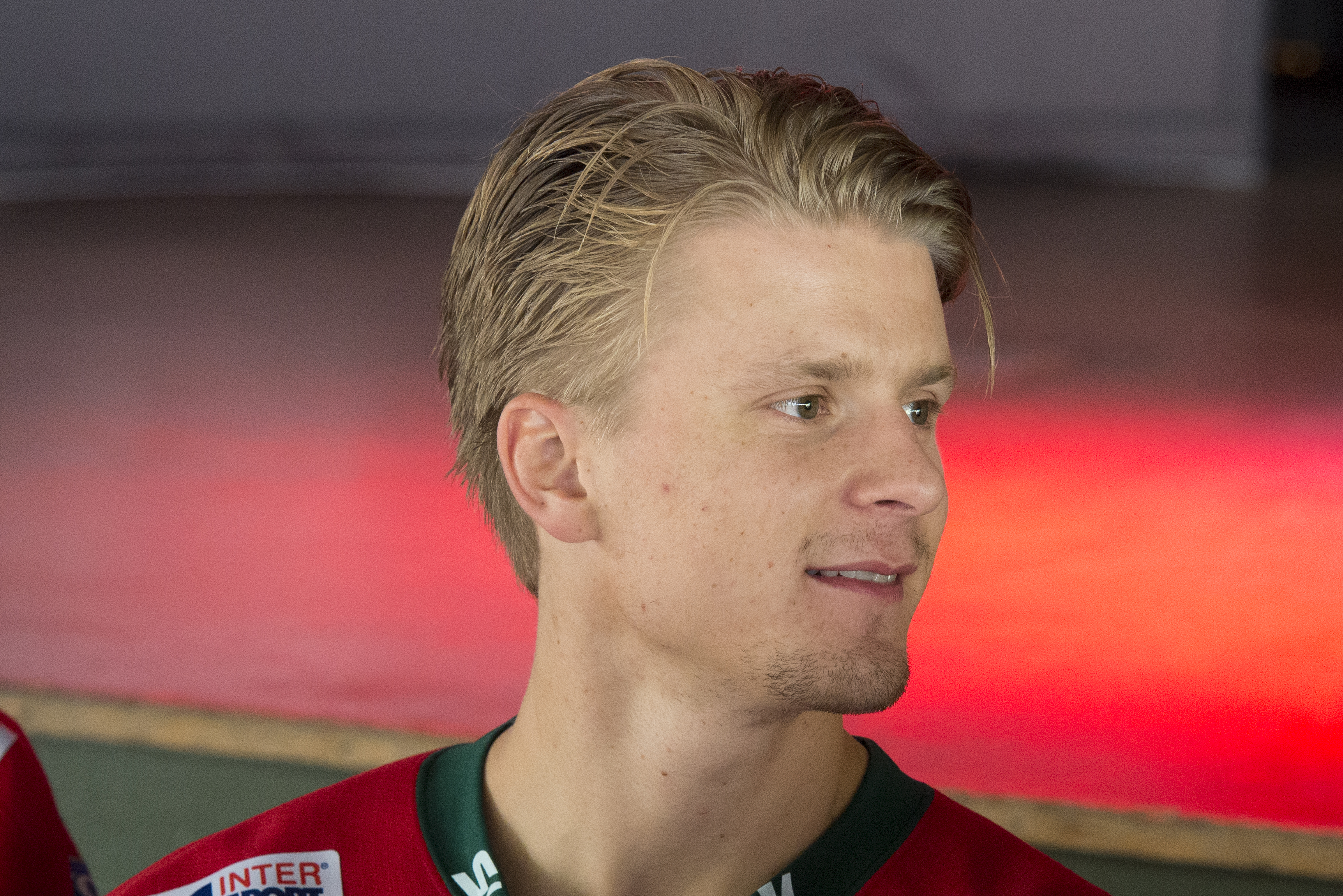 Ice hockey player Nicklas Lasu at "Frölundas dag" at Liseberg, Göteborg 2013.